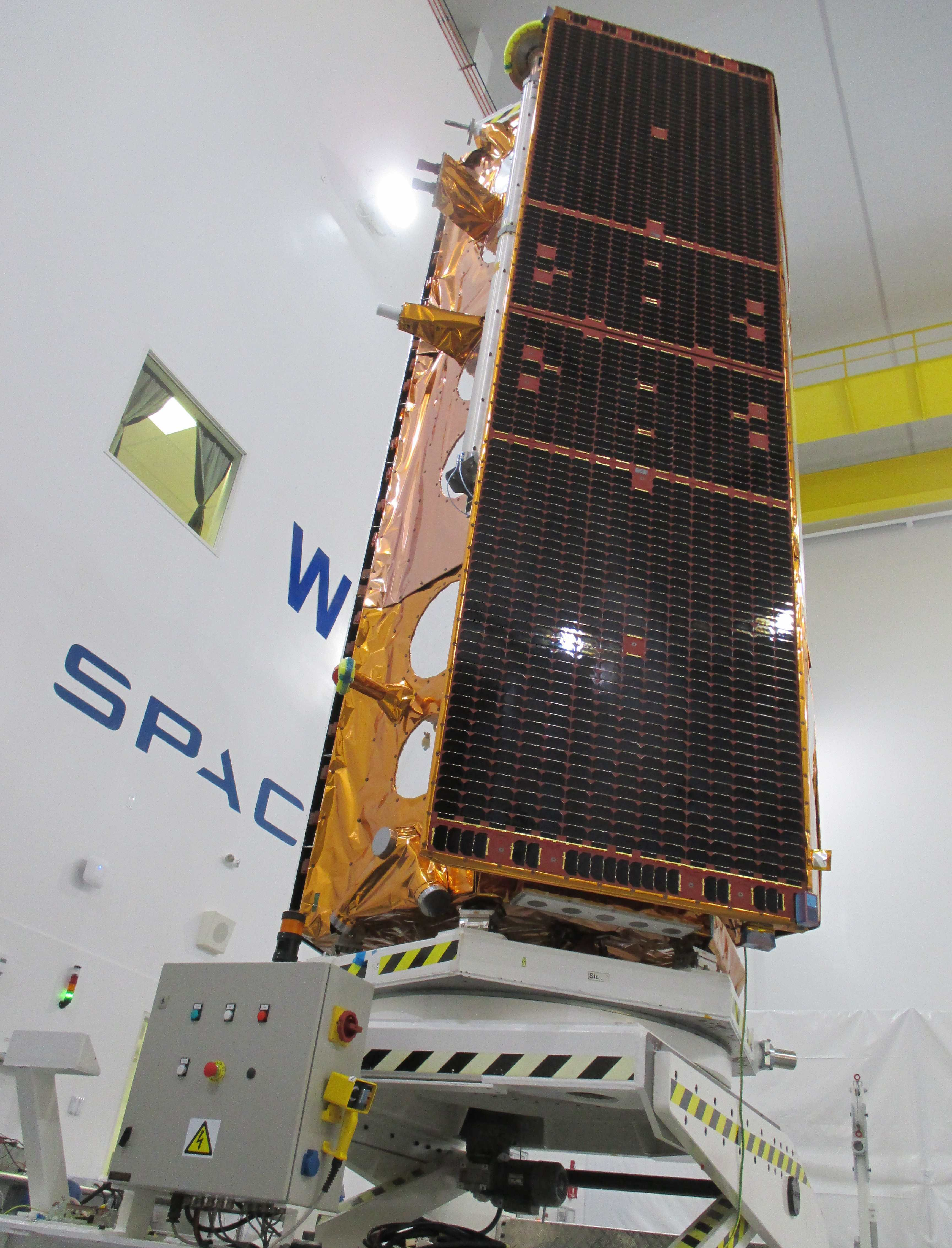 Paz Earth observation satellite at SpaceX, being prepared for launch